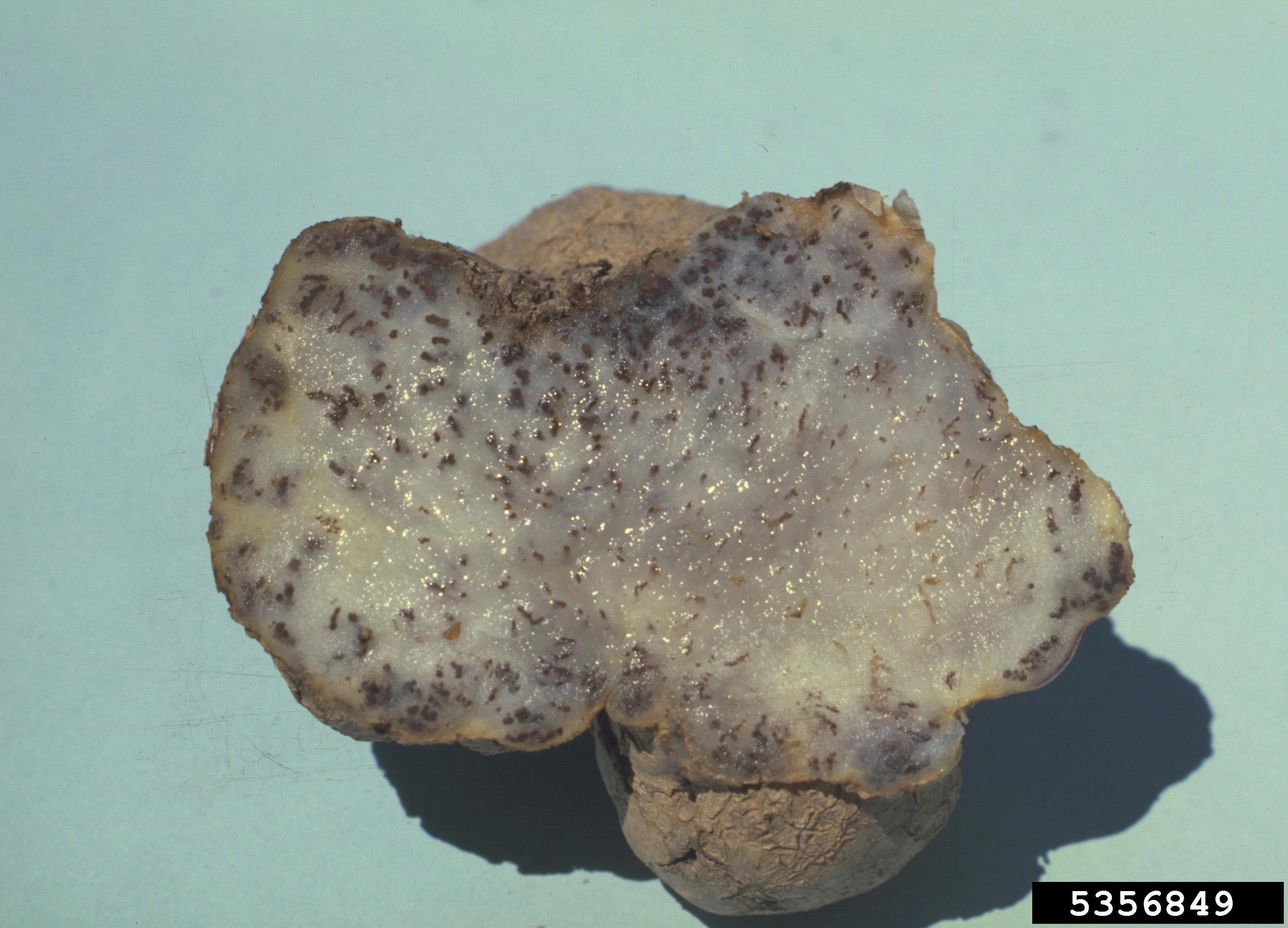 A section through a potato tuber infected by potato smut (Thecaphora solani)